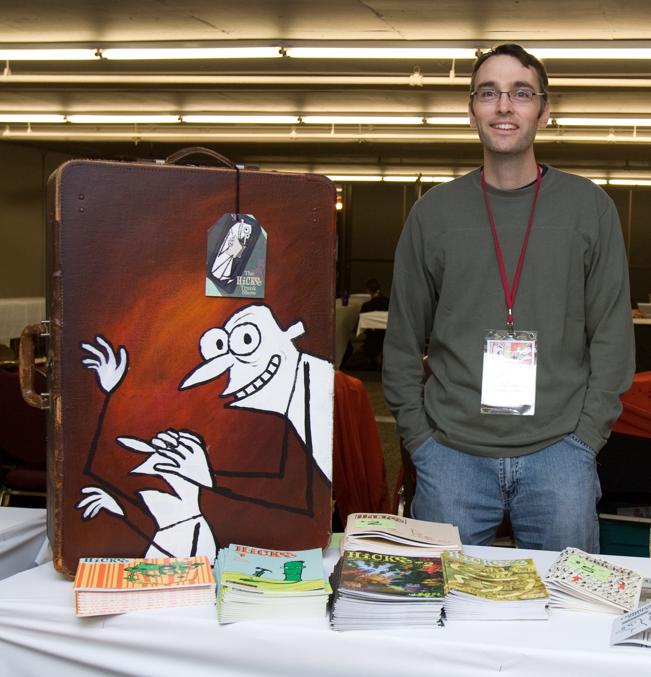 Graham Annable, creator of "Grickle" and " Hickee" comics, at the 2007 Stumptown Comics Festival, in Portland, Oregon.